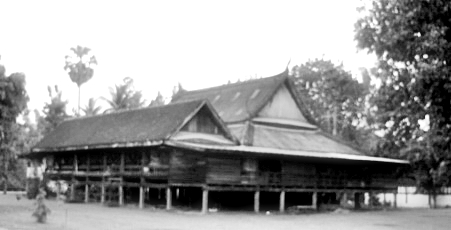 Old sala (pavilion) of Wat Khung Taphao. Ban Khung Taphao, Khung Taphao subdistrict, Mueang Uttaradit, Uttaradit Province, Thailand.